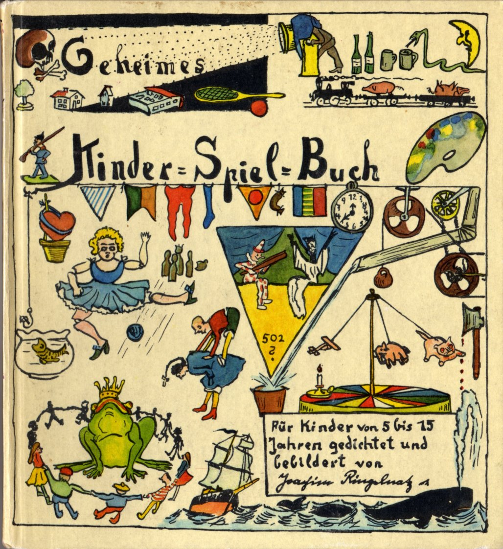 This is a scan of the historical document